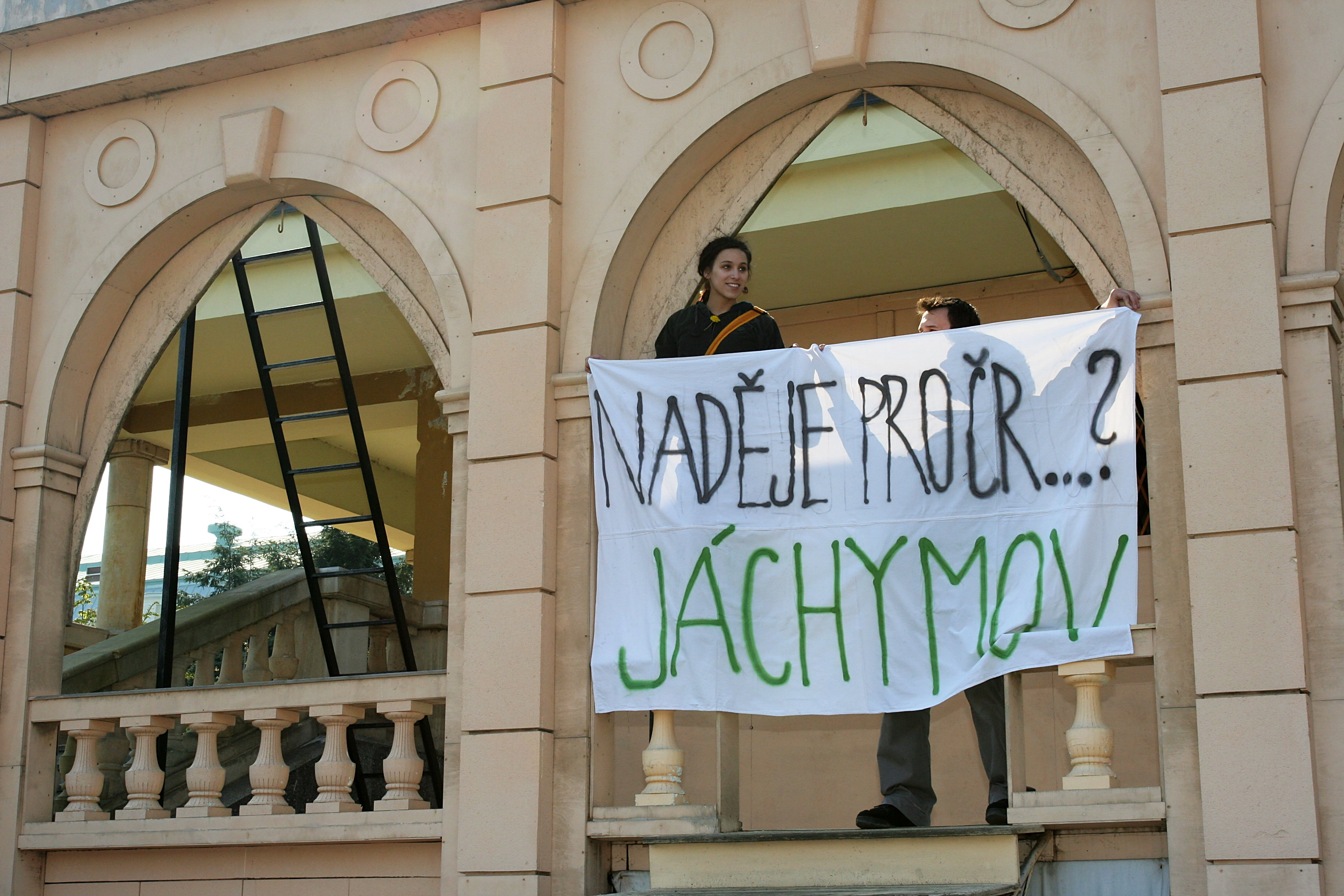 Two people protesting againts communists on their metting on 1st May, 2006